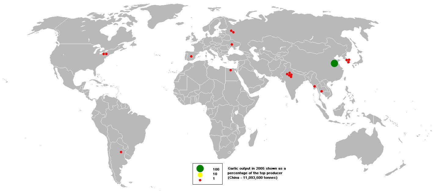 This bubble map shows the global distribution of garlic output in 2005 as a percentage of the top producer (China - 11,093,500 tonnes). This map is consistent with incomplete set of data too as long as the top producer is known. It resolves the accessibility issues faced by colour-coded maps that may not be properly rendered in old computer screens. Data was extracted on 8th June 2007 from Based on :Image:BlankMap-World.png